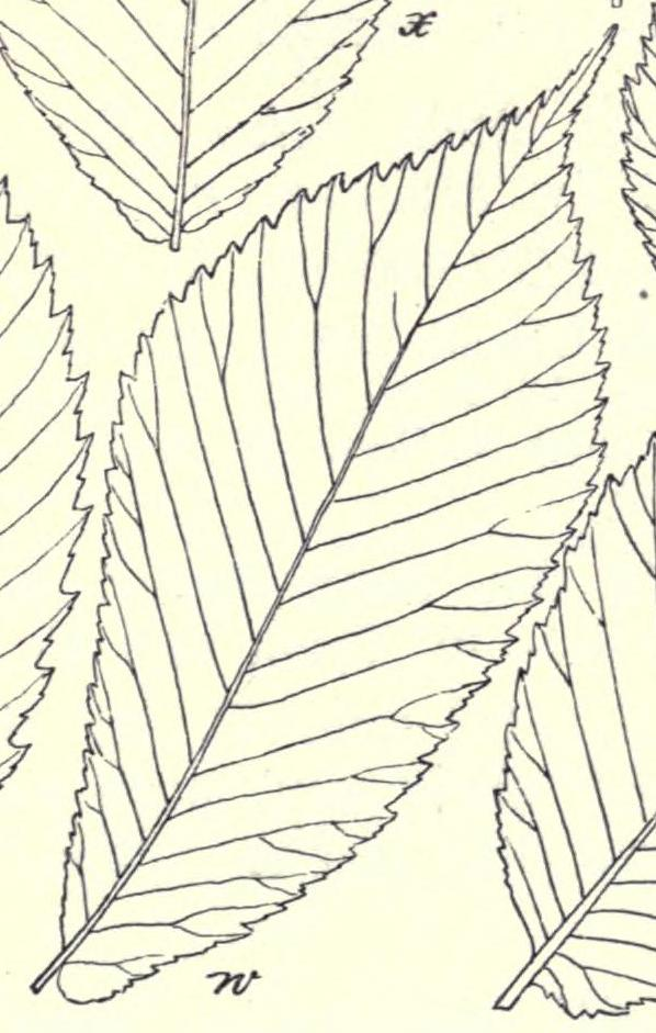 a: Ulmus thomasii (racemosa) a1: Ulmus thomasii (racemosa) b: Ulmus fulva c: Ulmus americana d: Ulmus americana e: Ulmus laevis (effusa) f: Ulmus laevis (effusa) f1: Ulmus laevis (effusa) g: Ulmus glabra (campestris) h: Ulmus glabra (campestris) i: Ulmus glabra (campestris) k: Ulmus glabra (campestris) var. minor l: Ulmus glabra (campestris) f. berardii m: Ulmus glabra (campestris) f. berardii n: Ulmus glabra (campestris) f. viminalis o: Ulmus glabra (campestris) f. antarctica p: Ulmus dippeliana f. wredei q: Ulmus dippeliana f. muscaviensis r: Ulmus dippeliana f. rueppellii s: Ulmus dippeliana f. bataviana t: Ulmus dippeliana f. vegeta u: Ulmus scabra (montana) v: Ulmus scabra (montana) w: Ulmus scabra (montana) f. macrophylla x: Ulmus scabra (montana) f. heterophylla y: Ulmus scabra (montana) f. crispa z: Ulmus elliptica